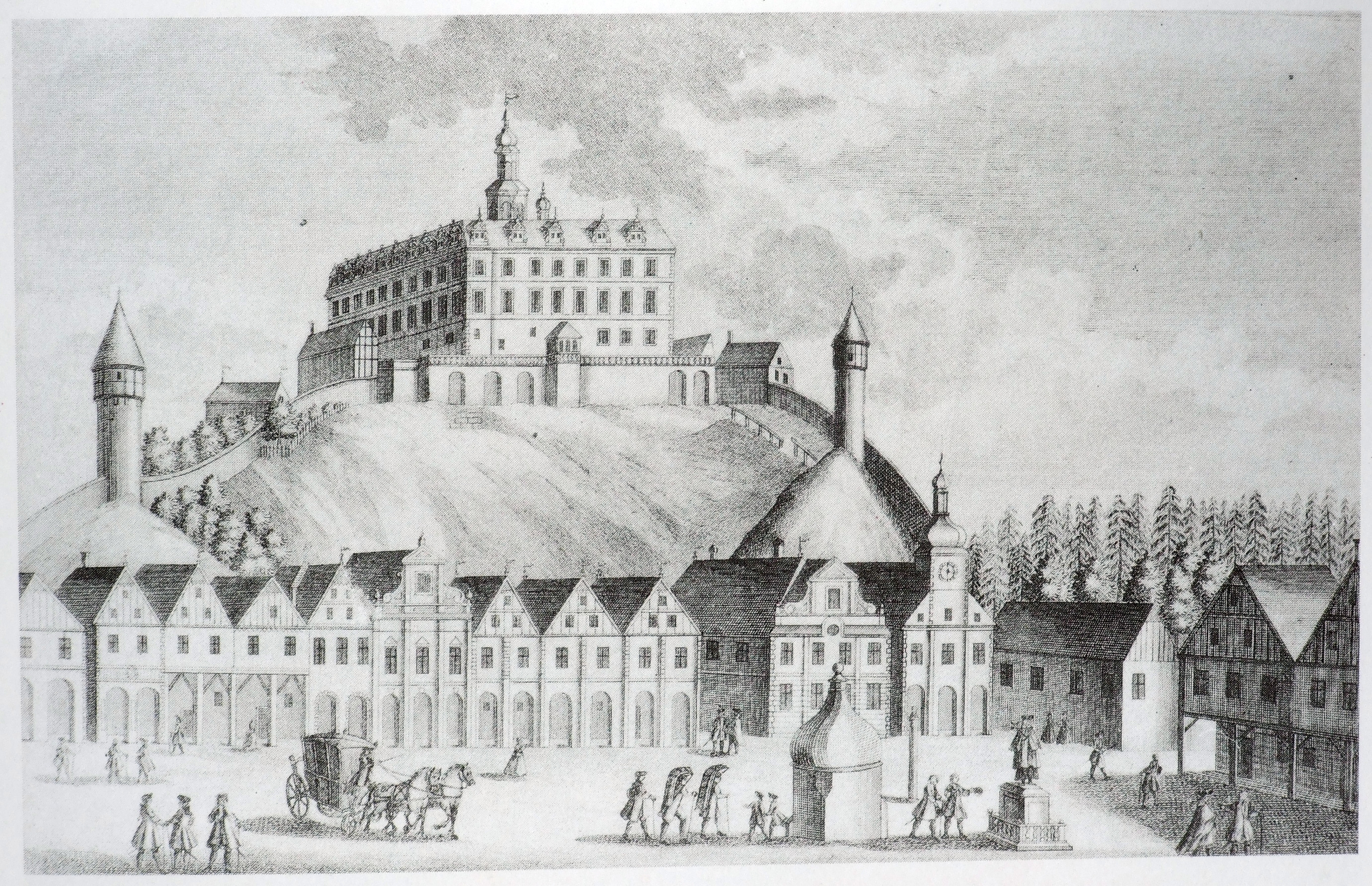 Nachod marketplace and castle - engraving made by J. G. Ringle after B. B. Werner source (around 1740)